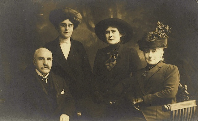 Family portrait c. 1912. Miss Anne Griffith-Jones with her parents and elder sister Nettie. Miss Anne Griffith-Jones is second from left.